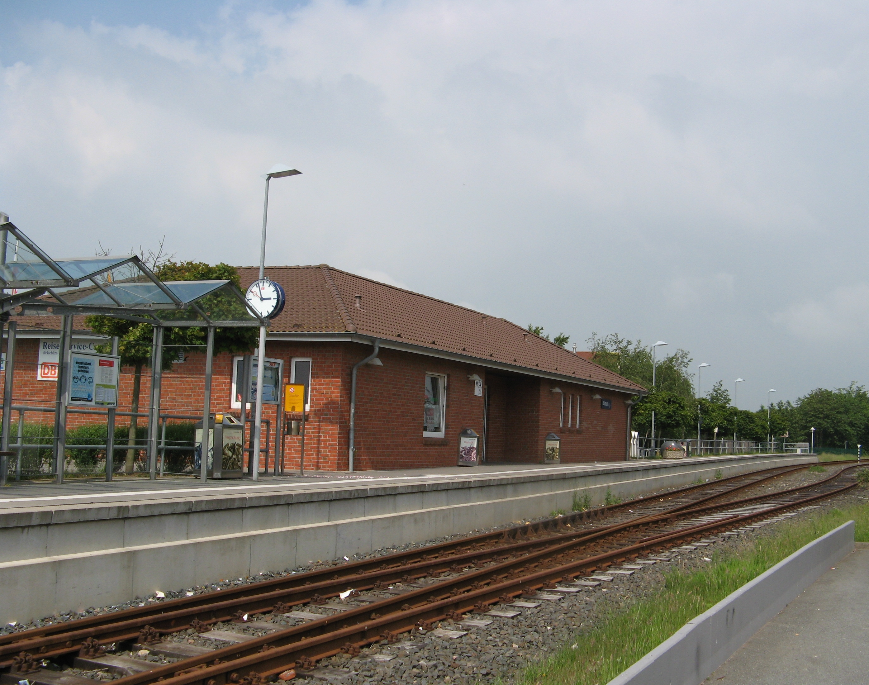 büsum: rain station